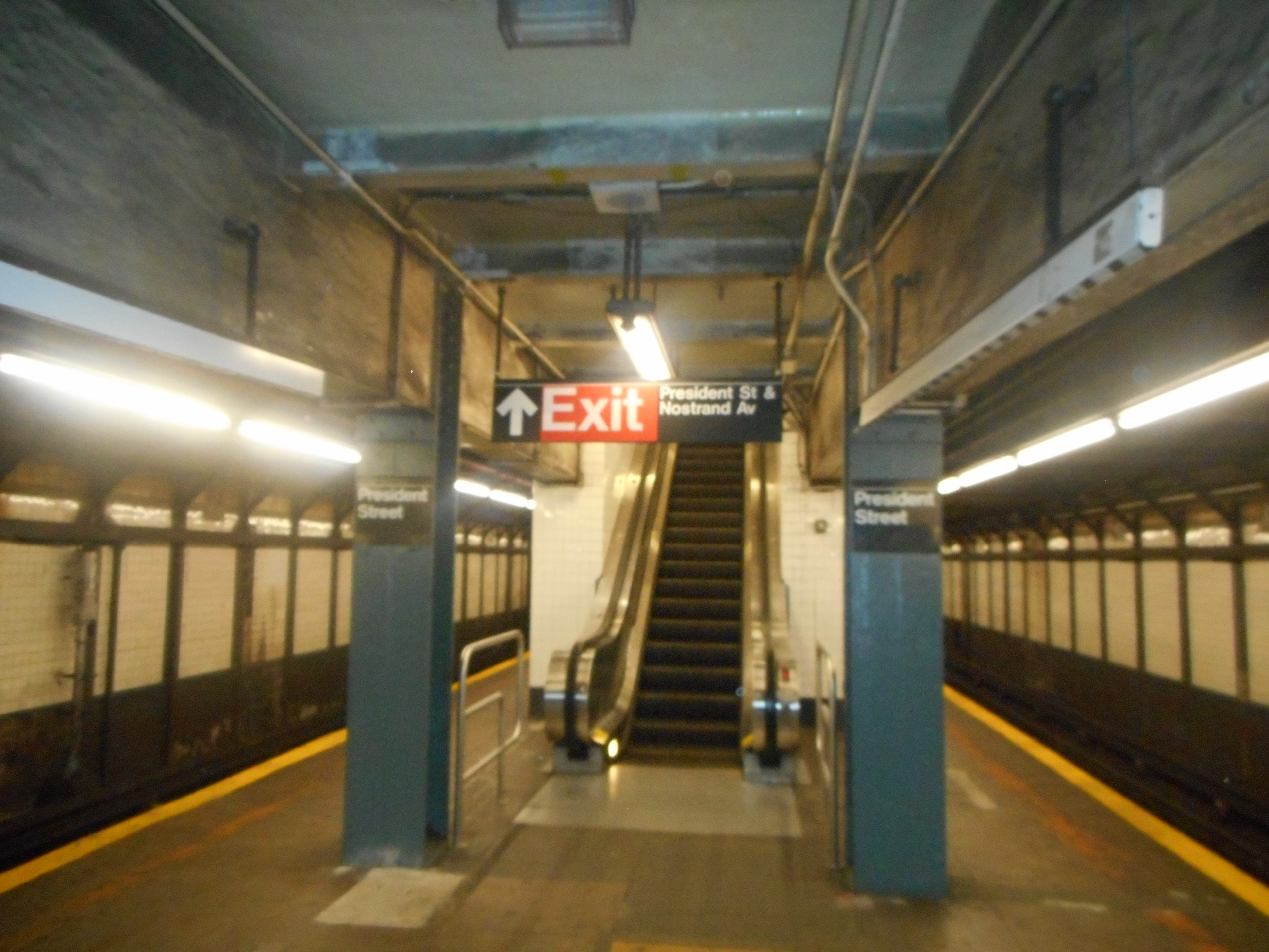 The escalator at the President Street Subway Station on the IRT Nostrand Avenue Line in the Crown Heights section of Brooklyn, New York City. A staircase and two other street-level entrances also exist.